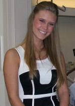 Miss World 2010 Alexandria Mills visits with Veterans at the Robley Rex VAMC, Louisville, Kentucky.